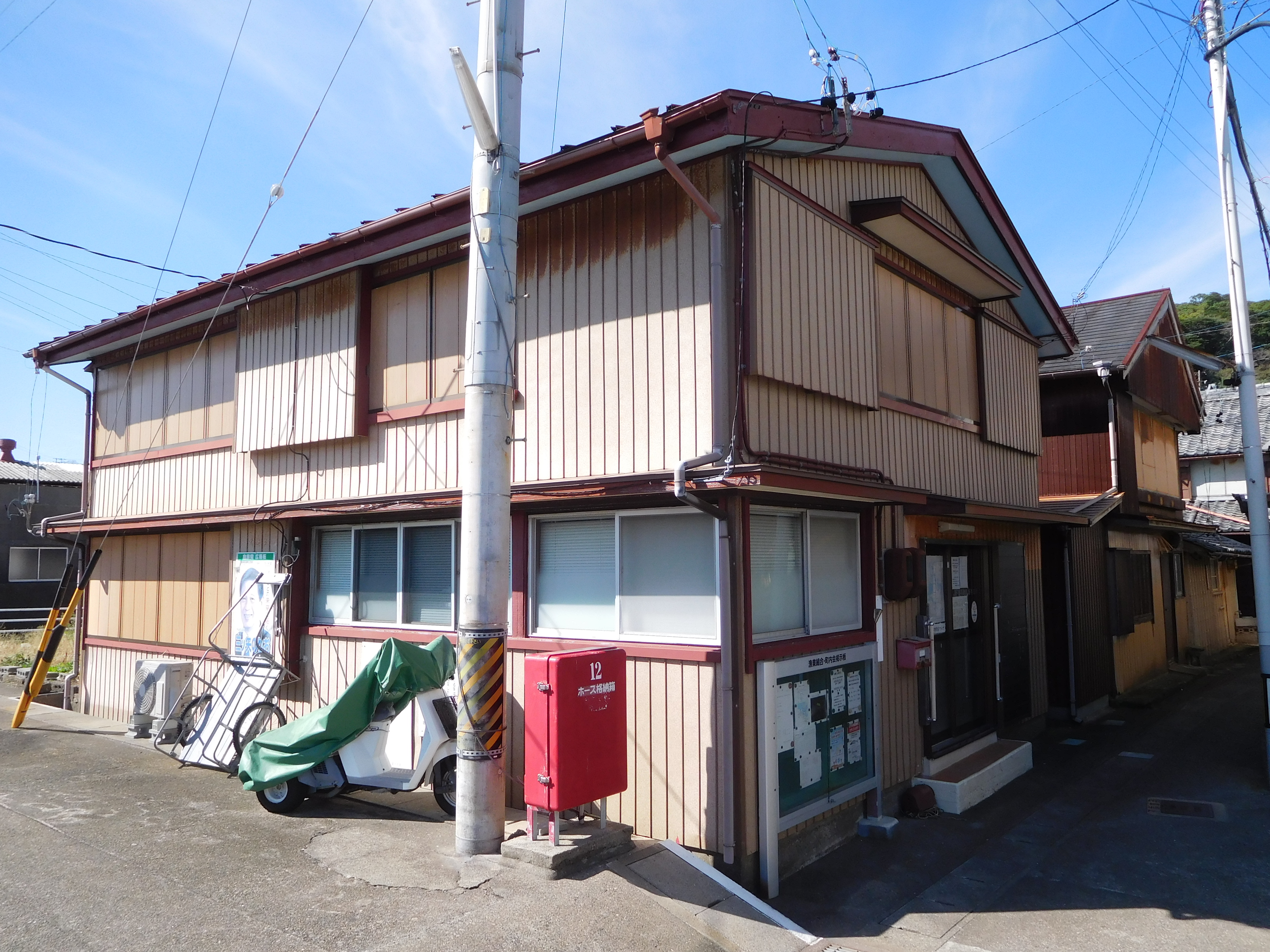 This is JF Toba Isobe Sakate Branch in Sakate island, Toba, Mie, Japan.